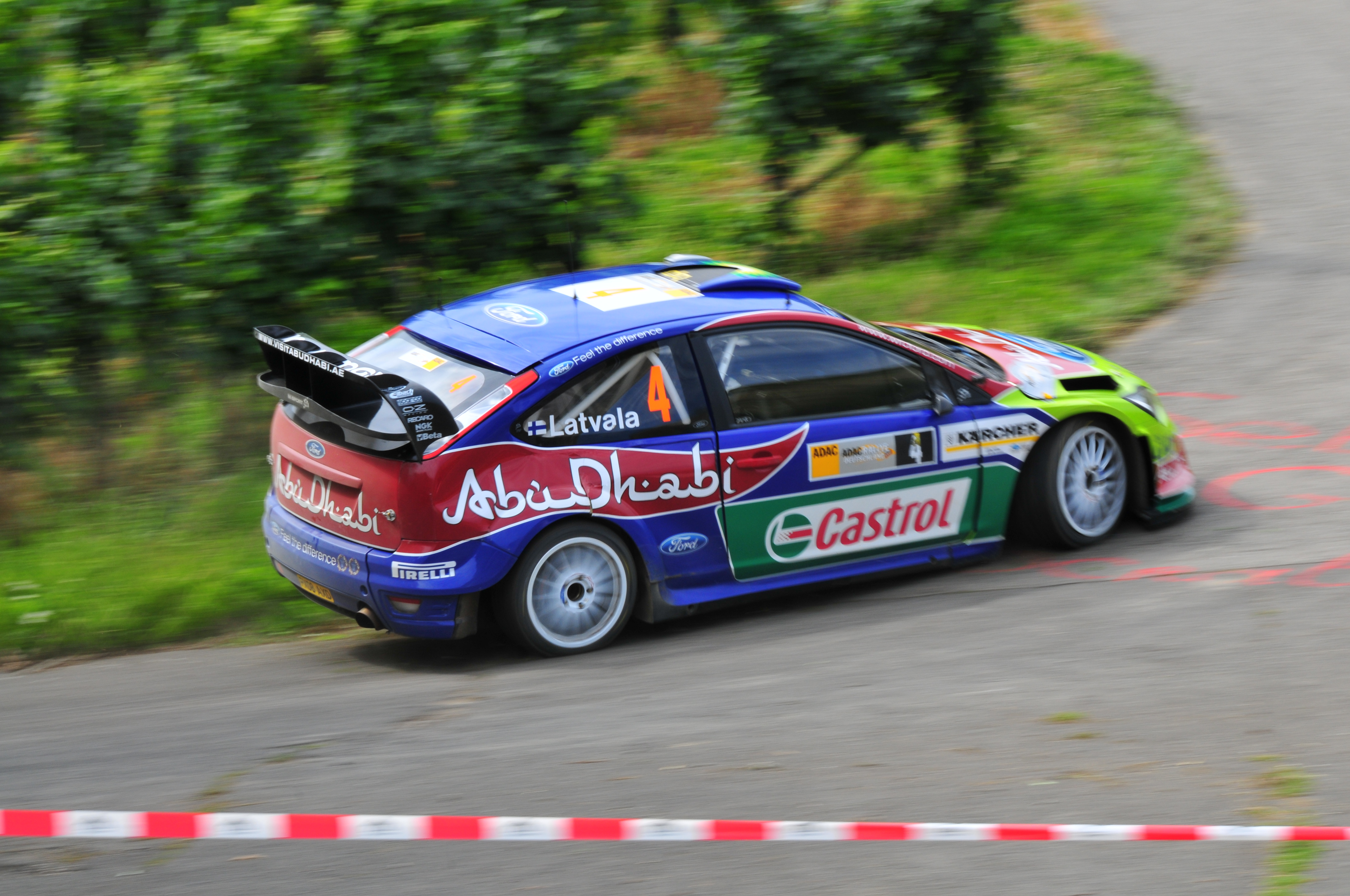 Jari-Matti Latvala driving his Ford Focus RS WRC 08 at the 2008 Rallye Deutschland.